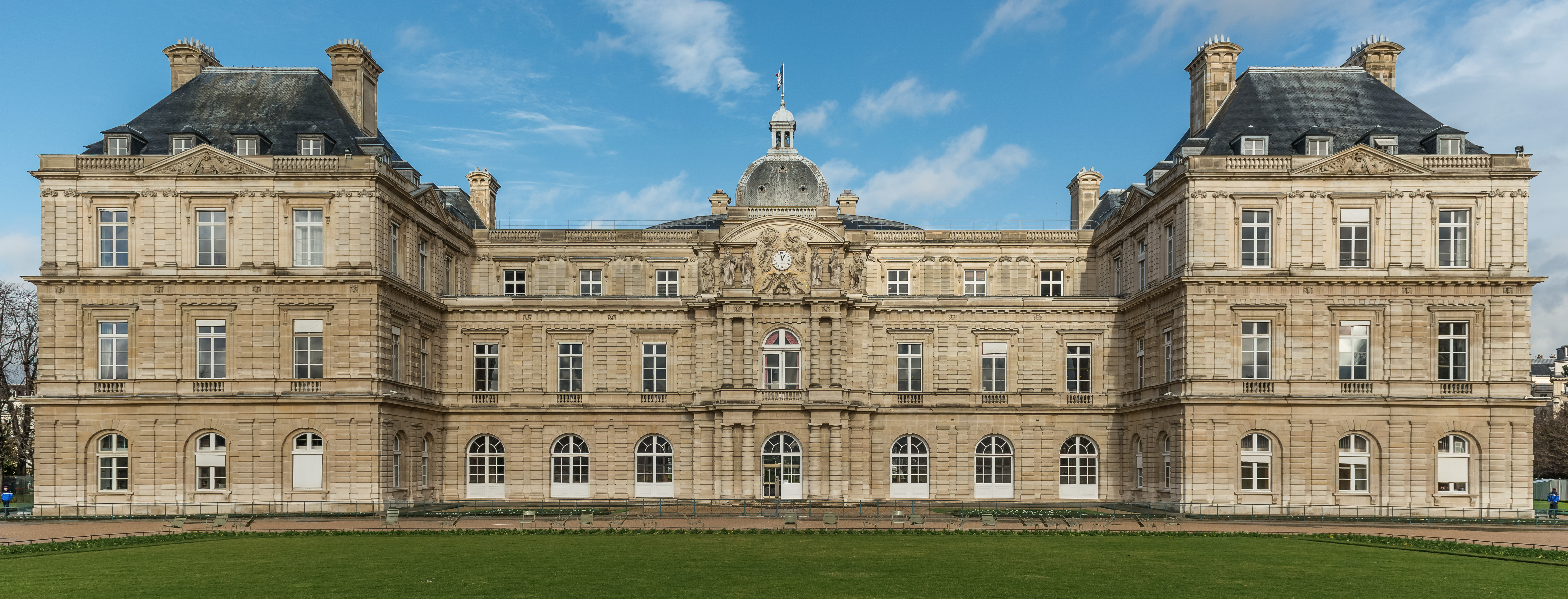 The south facade of the Luxembourg Palace, seat of the French Senate, located in Paris. The palace was built from 1615 to 1631 following the designs of architect Salomon de Brosse. The garden wing shown here was added to the south side of the palace c. 1836 by Alphonse de Gisors. Although Gisors' addition mimics de Brosse's original facade, which it obscured, it differs in significant details. For instance, the decoration around the clock of the central pavilion was produced by the 19th-century Swiss-born French sculptor James Pradier.